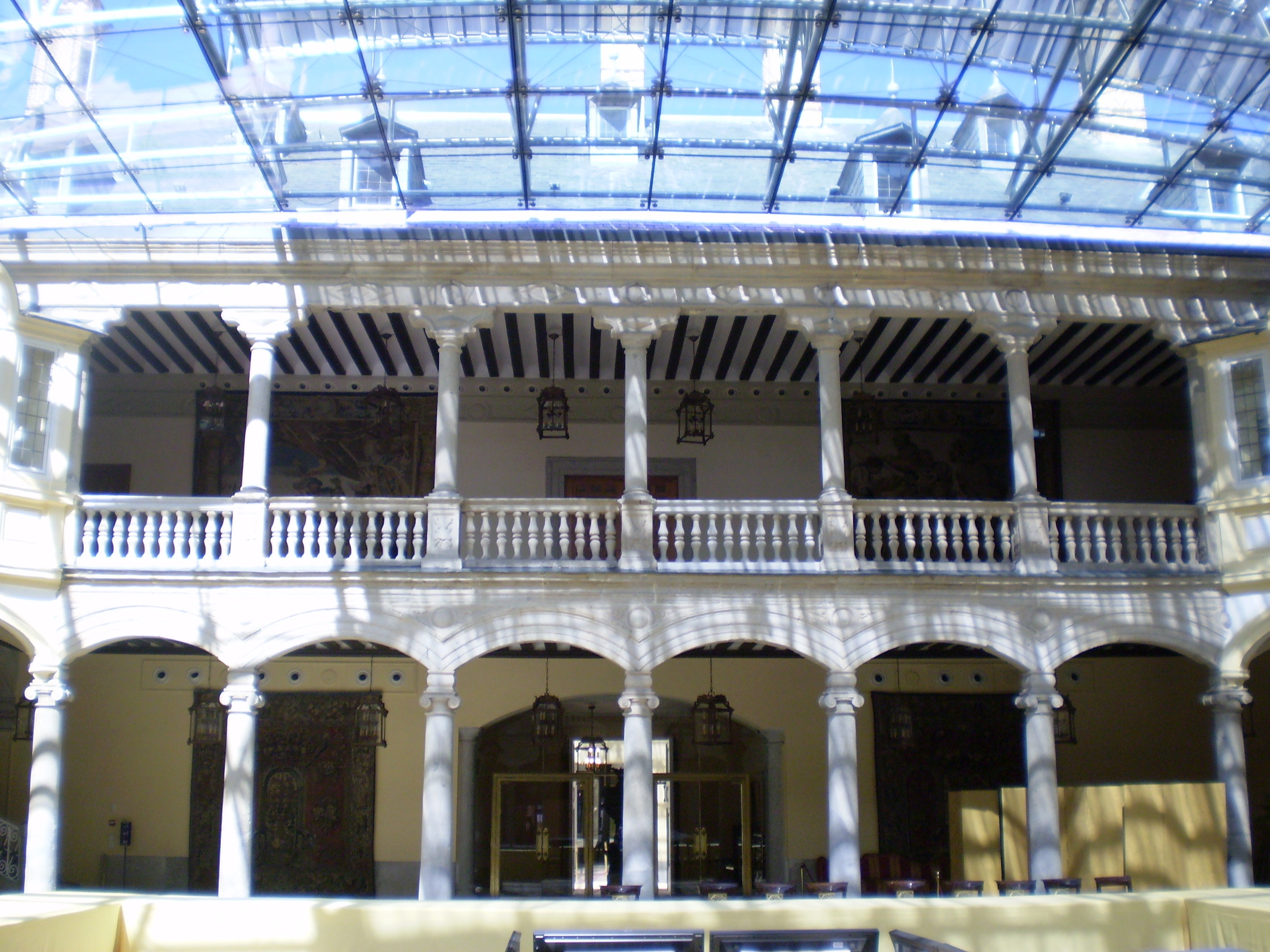 Royal Palace of El Pardo, Madrid, Spain